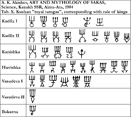 Listing of Kushan royal tamgas, after A. K. Akishev, ART AND MYTHOLOGY OF SAKAS, Science, Kazakh SSR, Alma-Ata, 1984, p. 109, category = events and facts that have an informational character